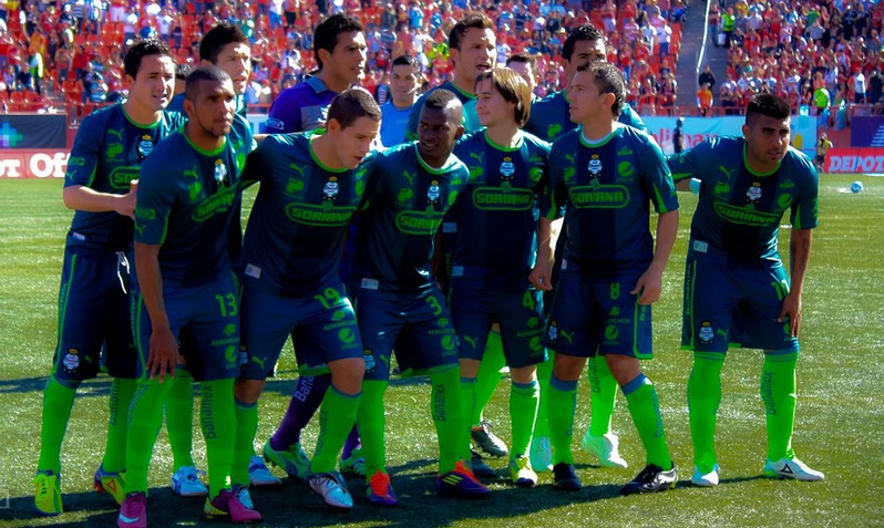 Club Santos Laguna